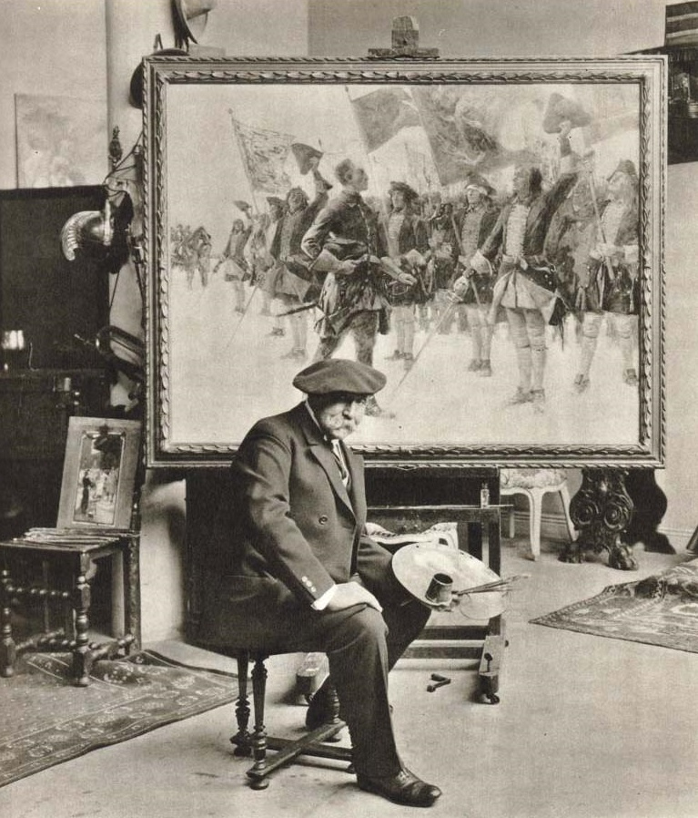 Photo of Swedish painter Gustaf Cederström